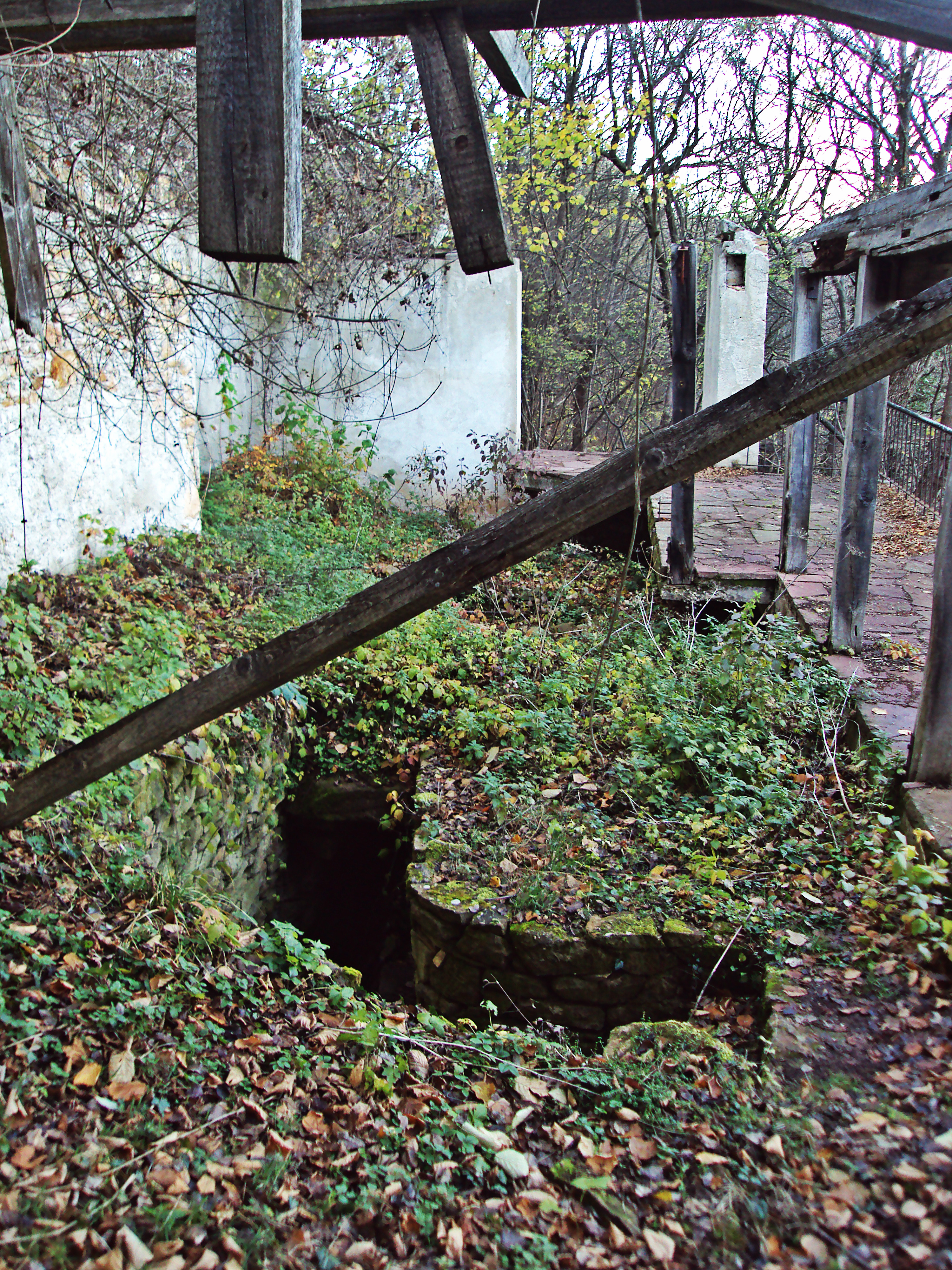 Входът на съоръжението